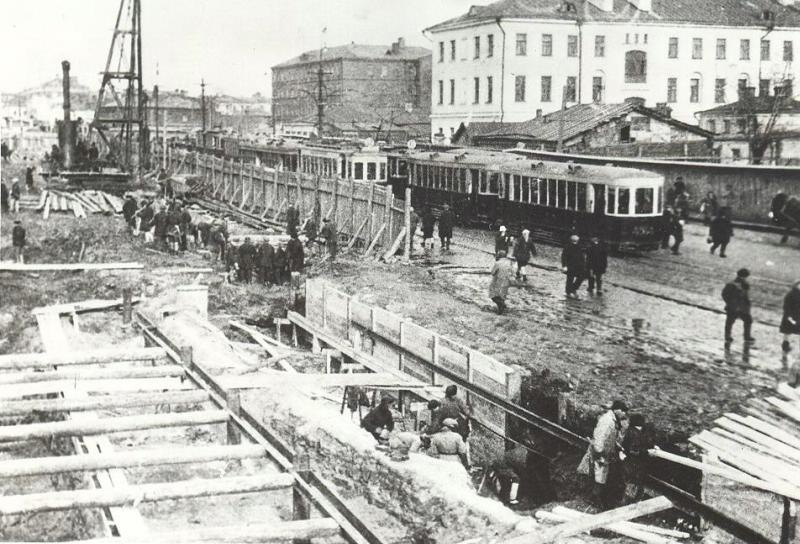 Moscow metro construction